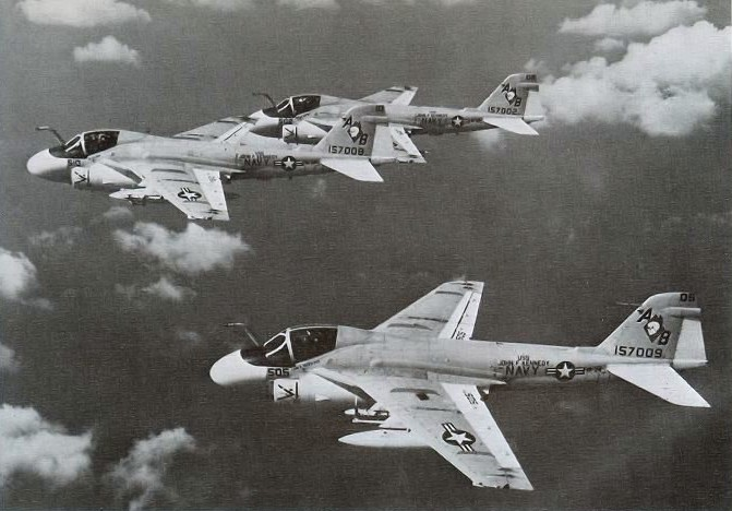 Three U.S. Navy Grumman A-6A Intruder (BuNo 157002, 157008, 157009) of attack squadron VA-34 Blue Blasters in flight. VA-34 was assigned to Carrier Air Wing 1 (CVW-1) aboard the aircraft carrier USS John F. Kennedy (CVA-67) for a deployment to the Mediterranean Sea from 18 November 1971 to 10 May 1972.